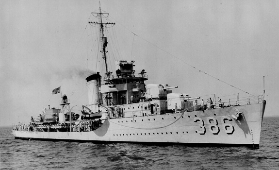 The U.S. Navy destroyer USS Bagley (DD-386) before the Second World War.